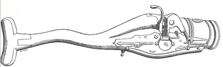 Hand mortar in the Royal Artillery Museum, Woolwich. Early 17th Century model.